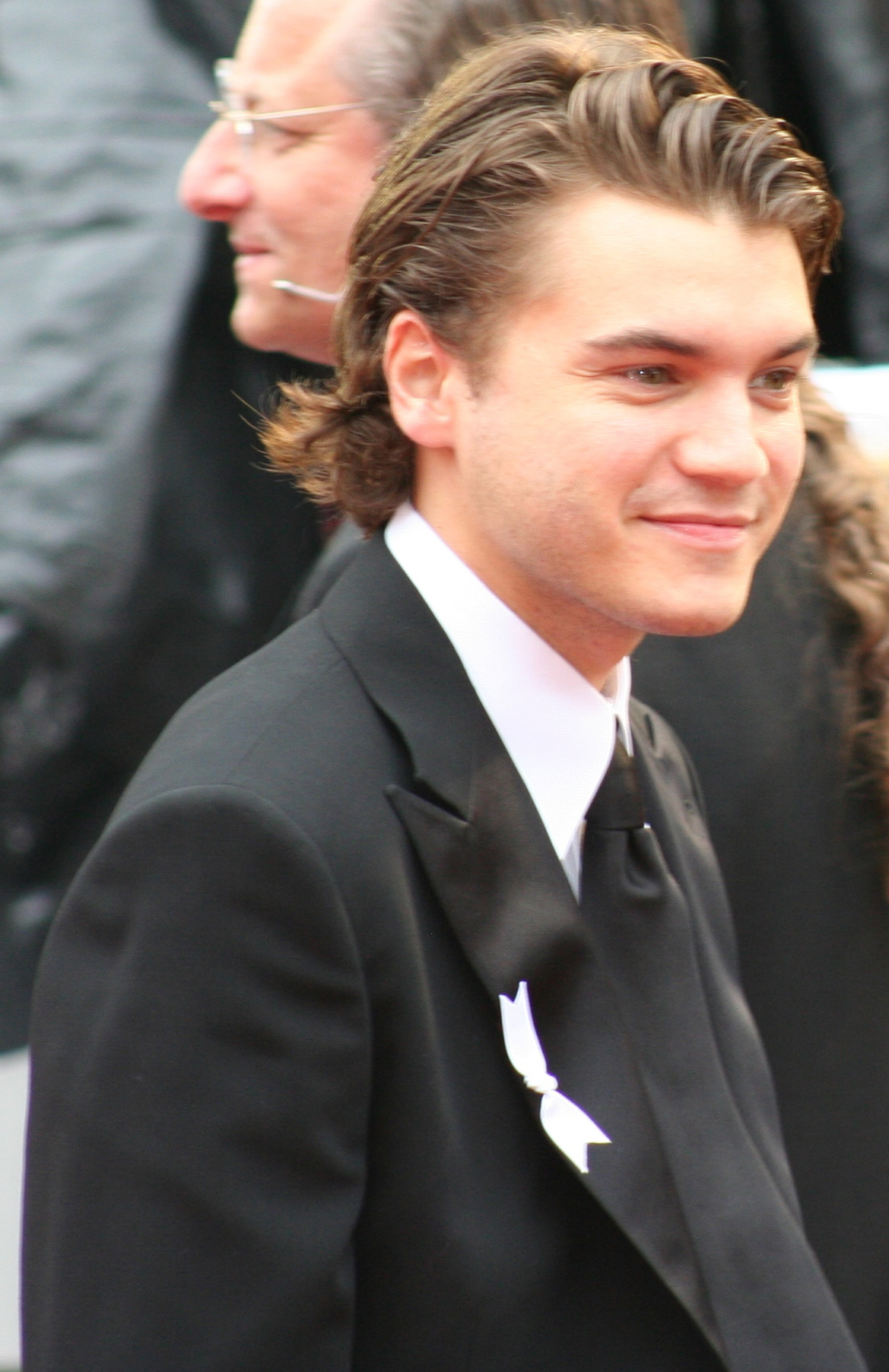 Emile Hirsch at the 81st Academy Awards